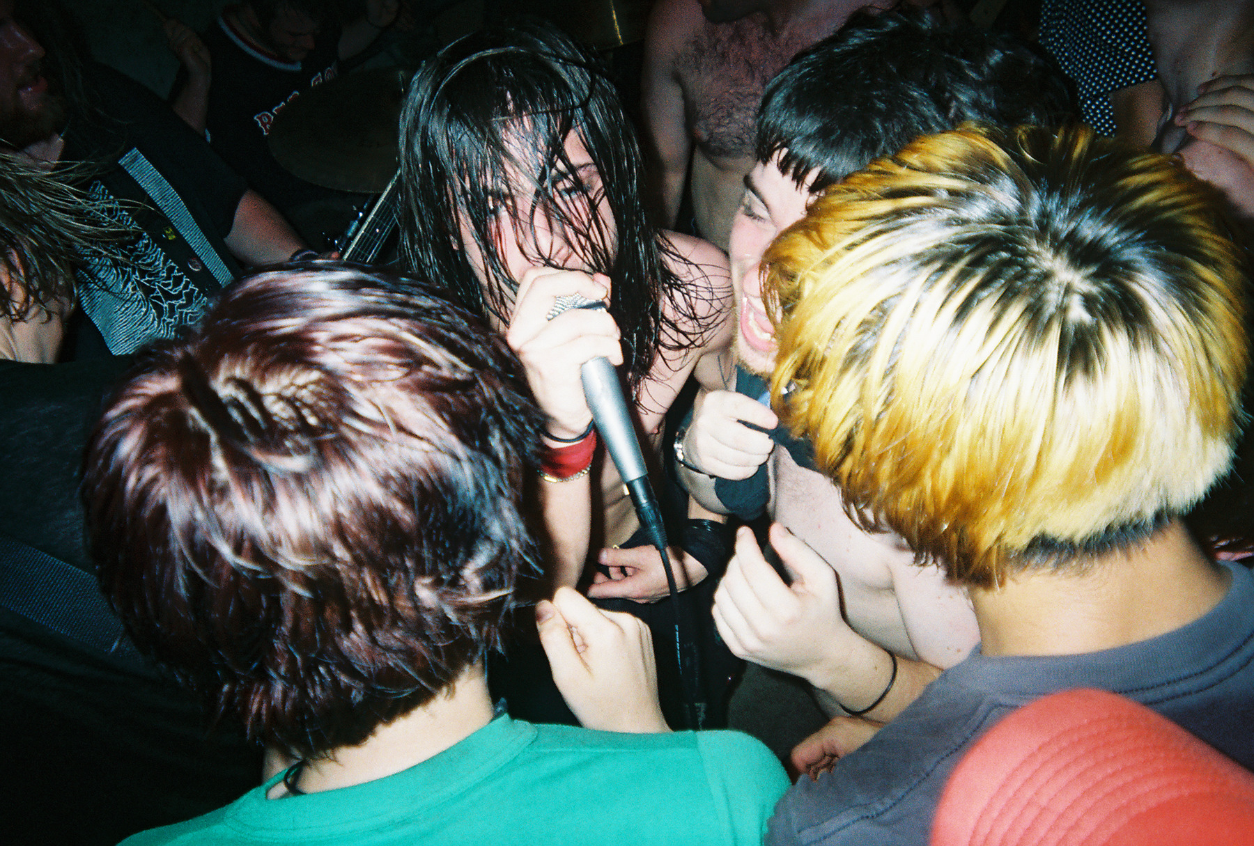 Pg. 99's Chris Taylor in Reading, PA. Most likely the 6/9/02 show at The Bassmint. Other members can be seen in the background.